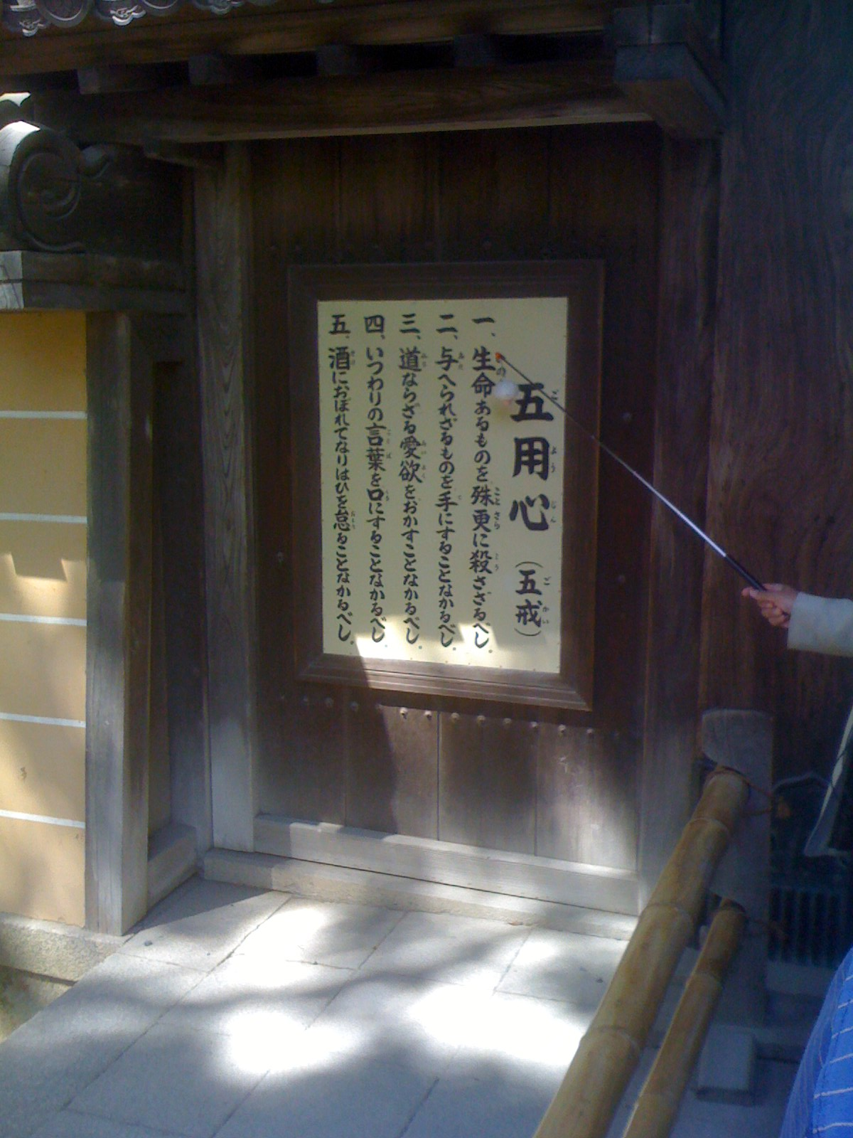 The five precepts of Buddhism. I agreed to abide by these in a ceremony at San Francisco Zen Center.